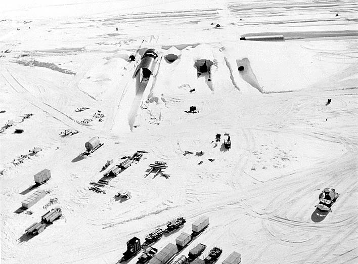 Photo of PM-2A Nuclear Power Plant